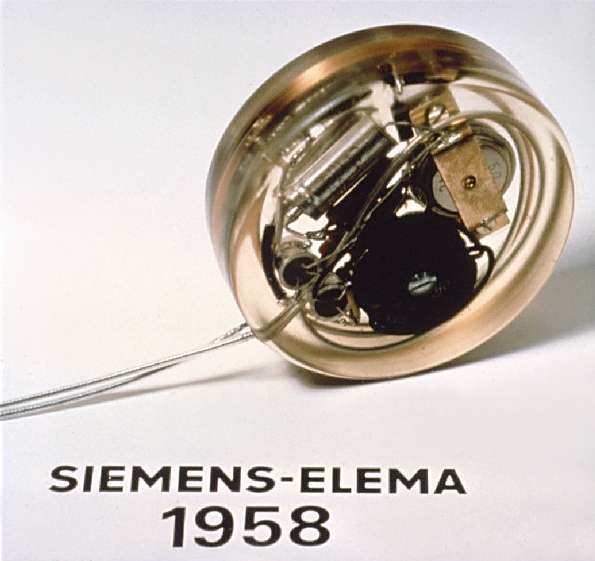 This is the first pacemaker to ever be implanted. (In 1958)